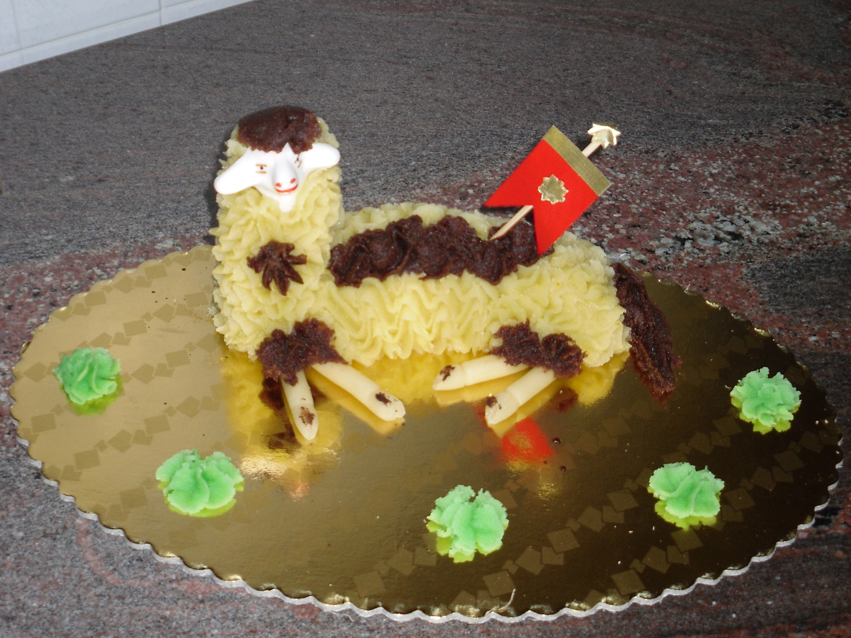 agnello di pasta di mandorle salentino dello zio santo